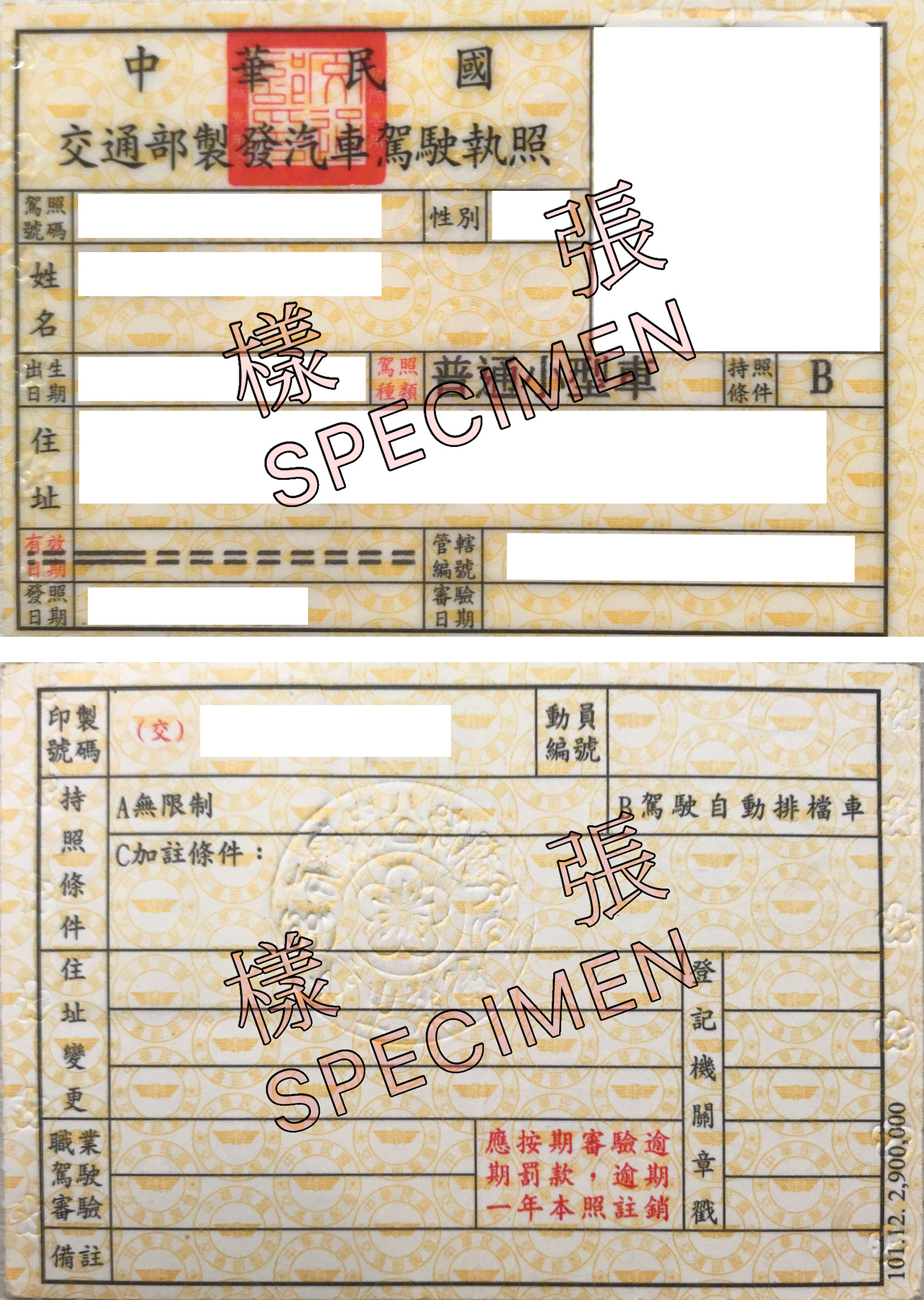 Driving Licence (cars) from Directorate General of Highways, MOTC, ROC. Version: December 2012.